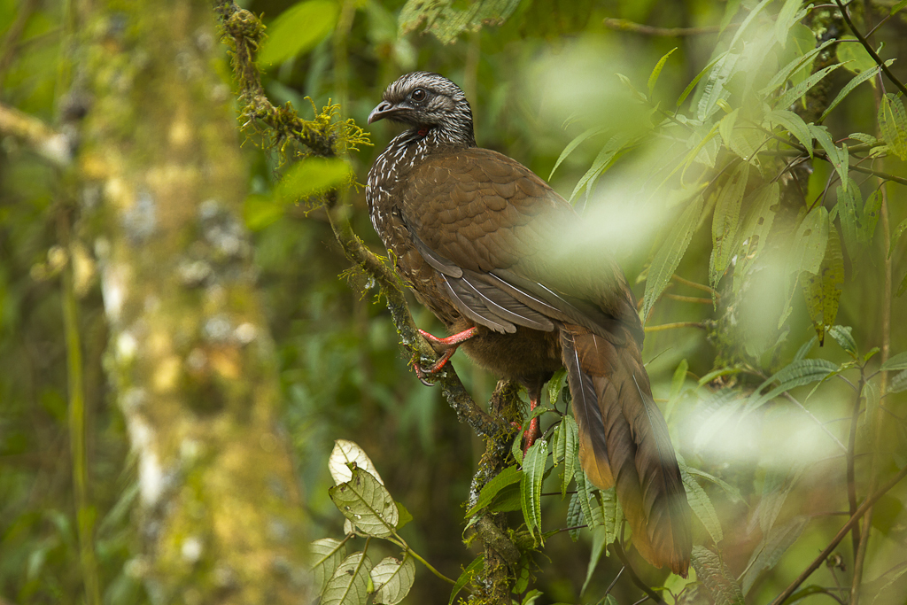 Bearded Guan - South-Ecuador_S4E1614